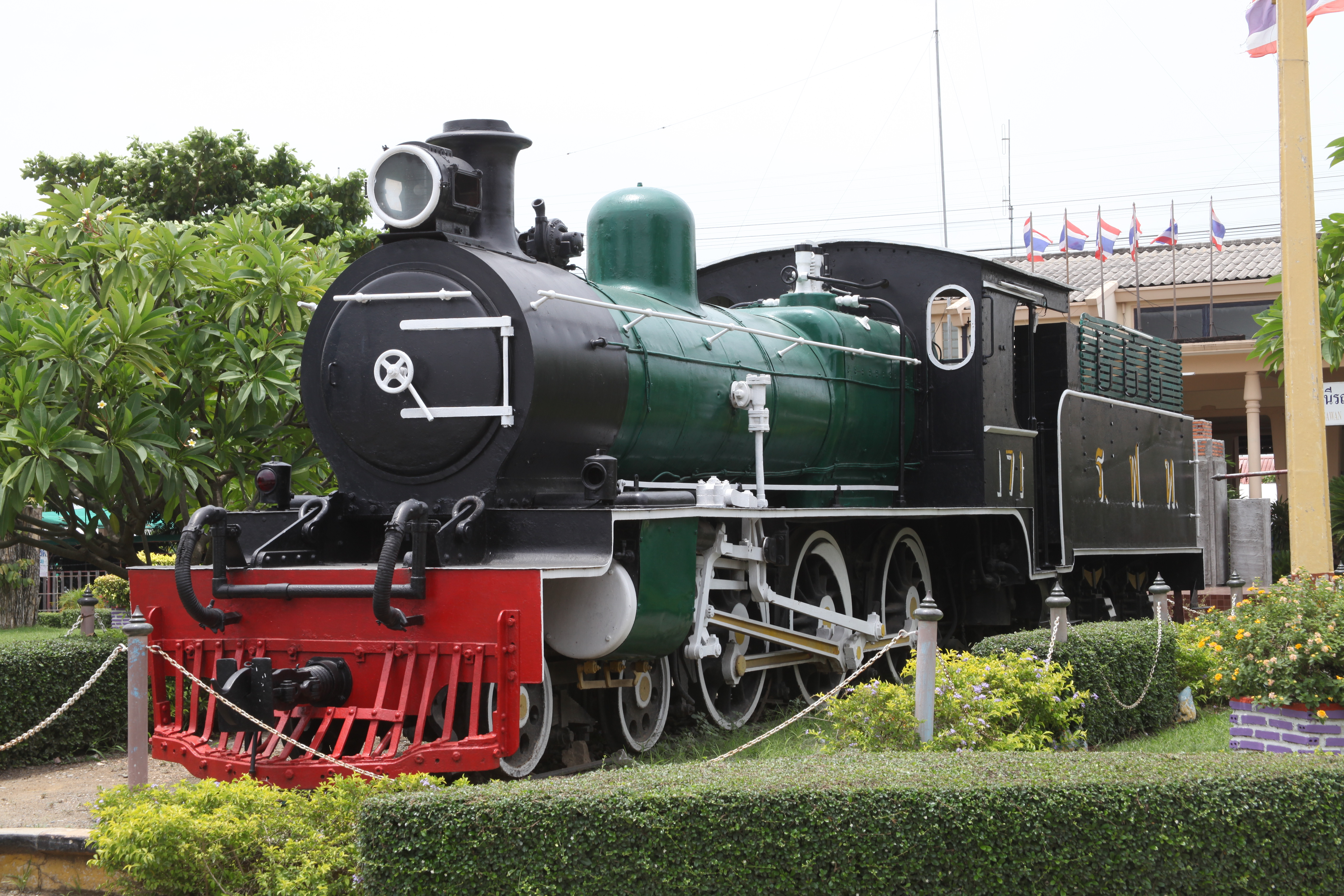 Steam Locomotive Thailand 171